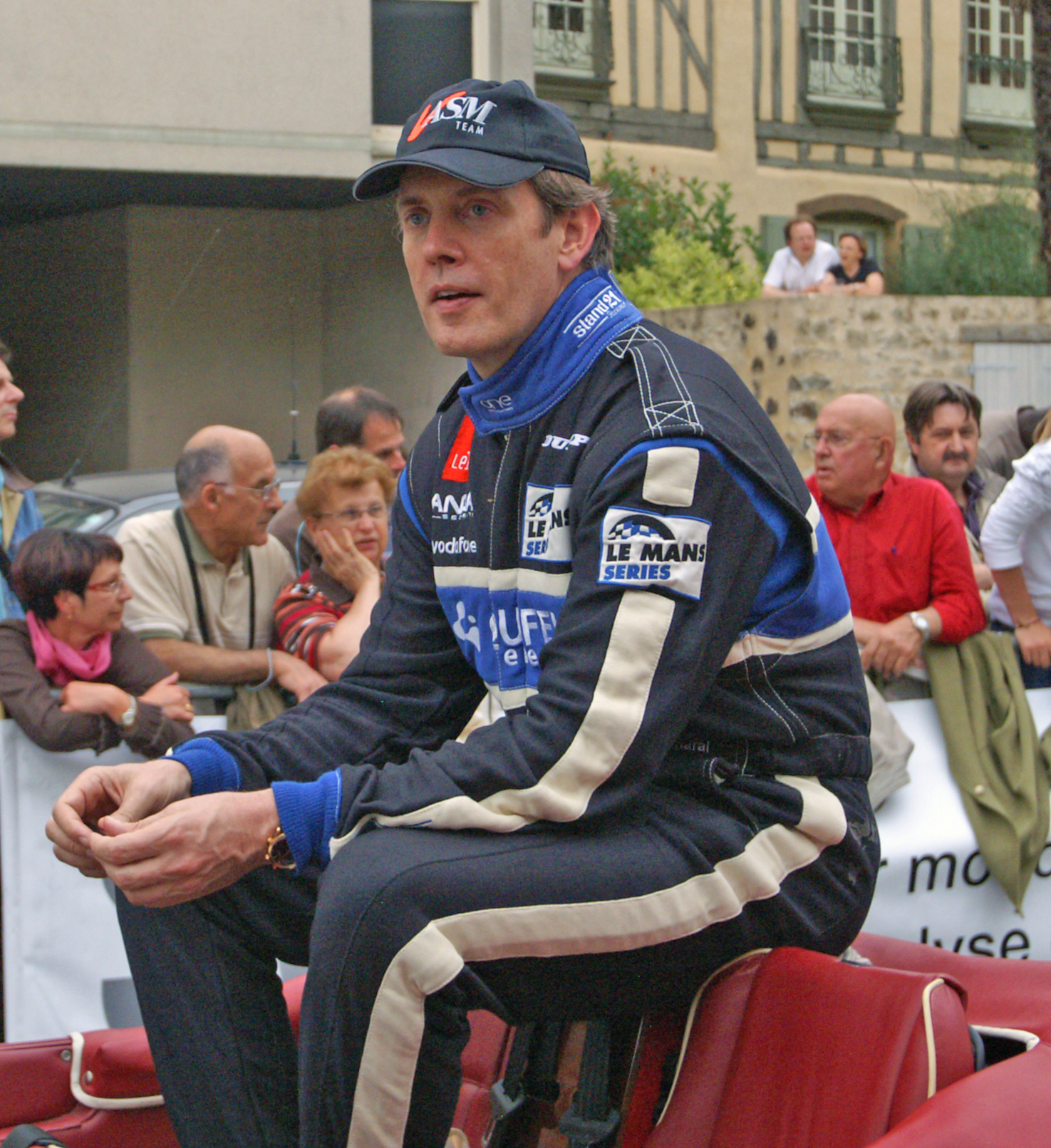 Miguel Amaral, One of the drivers of Ginetta 09/S2 - Zytek (No. 40) for Quifel - ASM Team Drivers' Parade Le Mans 2009